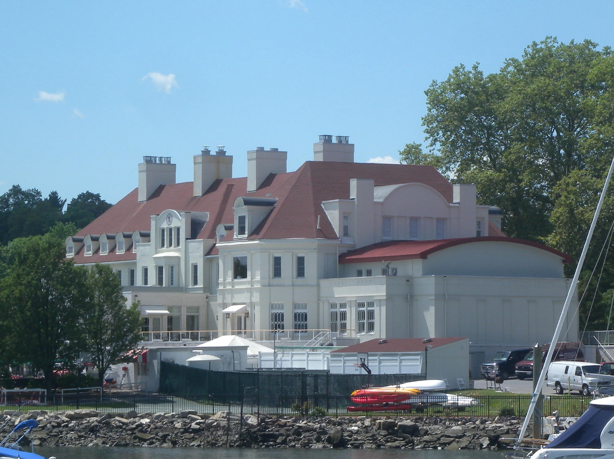 Looking southwest from Glen Island at Athletic Club house on a sunny midday.